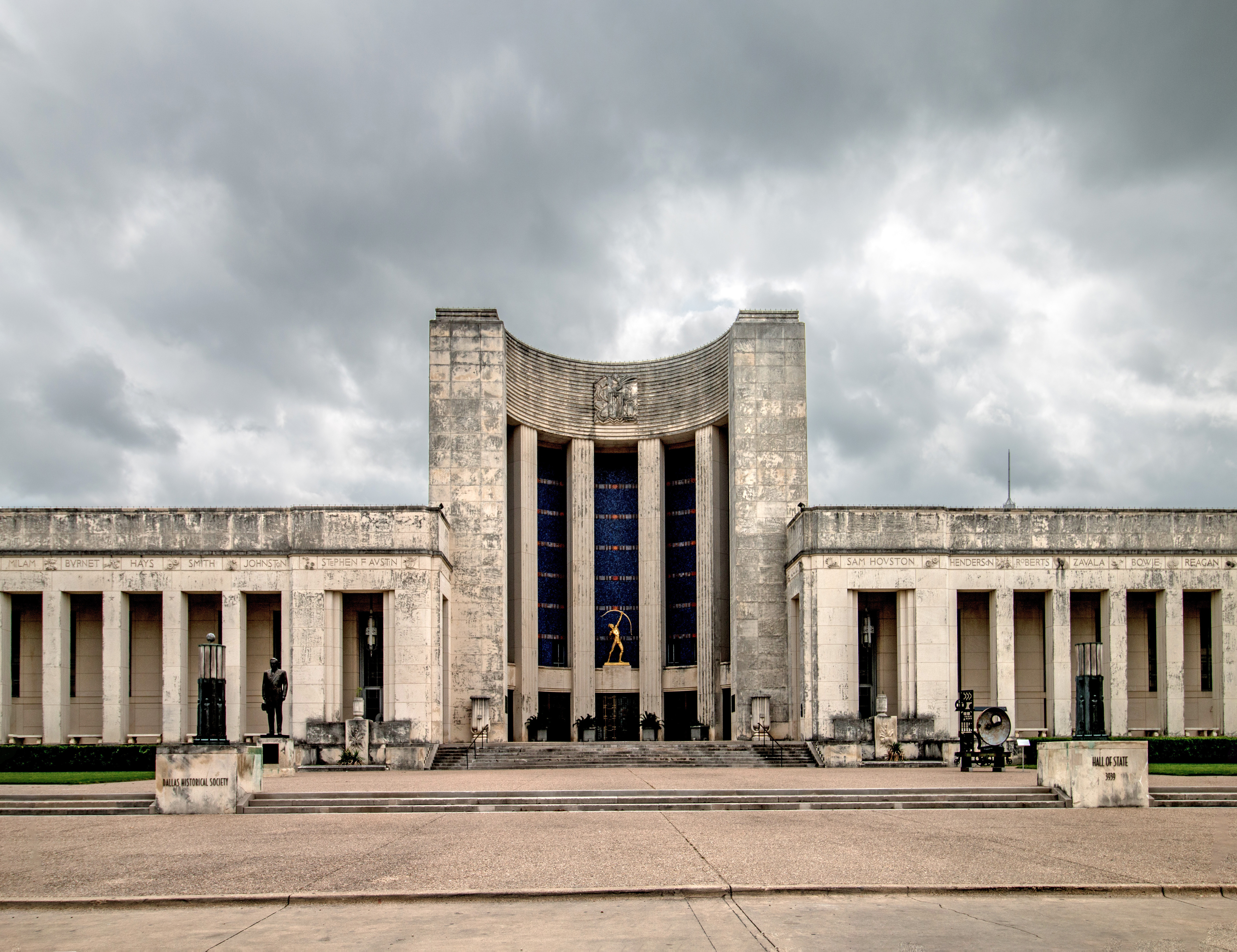 Texas Centennial Exposition Buildings (1936-1937)